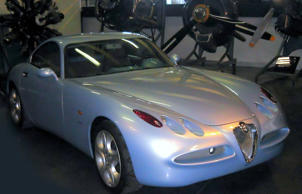 Modified from original photo: Alfa Romeo Nuvola